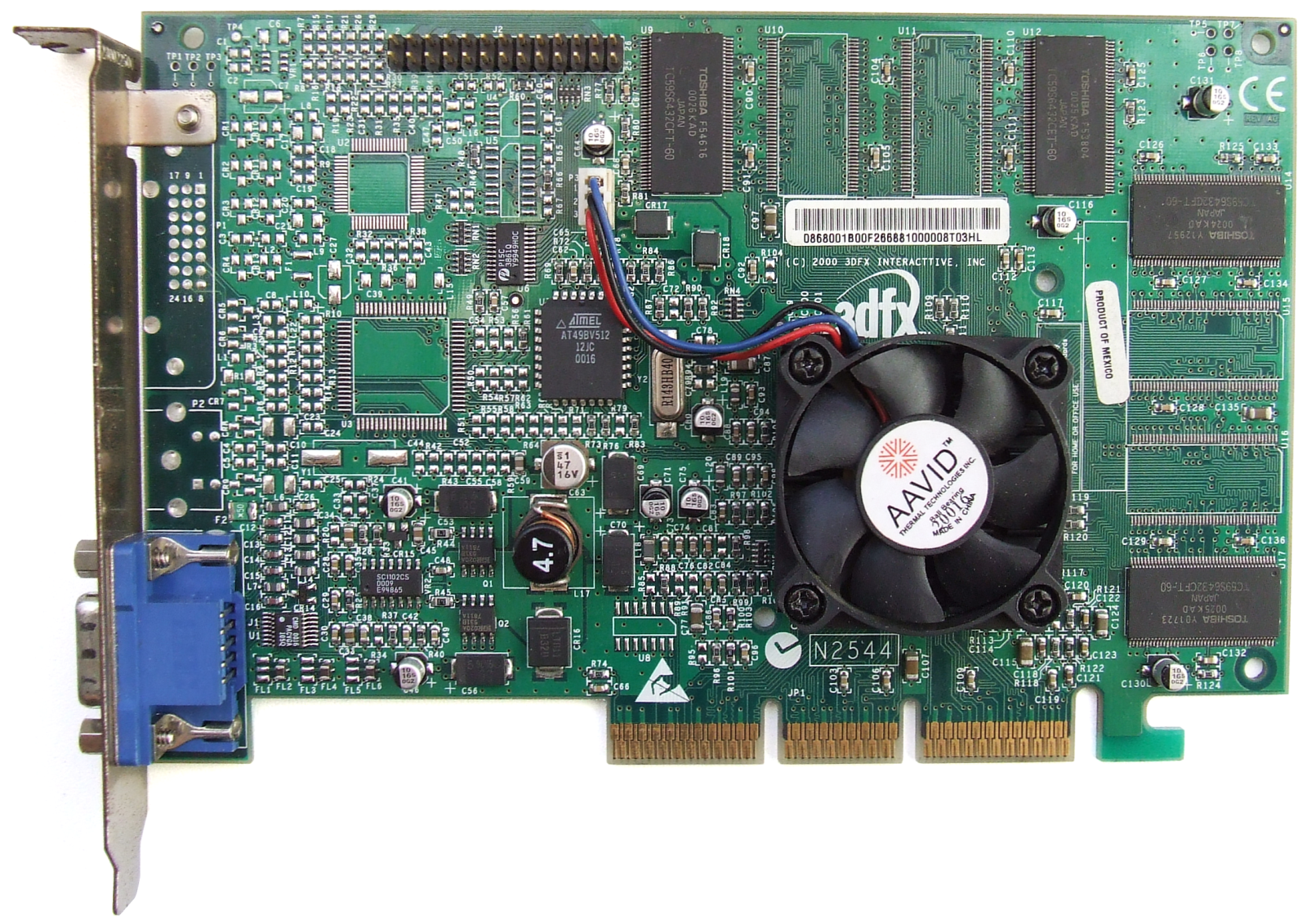 3dfx Voodoo4 4500 (32 MB) video card. It is based on the VSA-100 graphics processing unit.